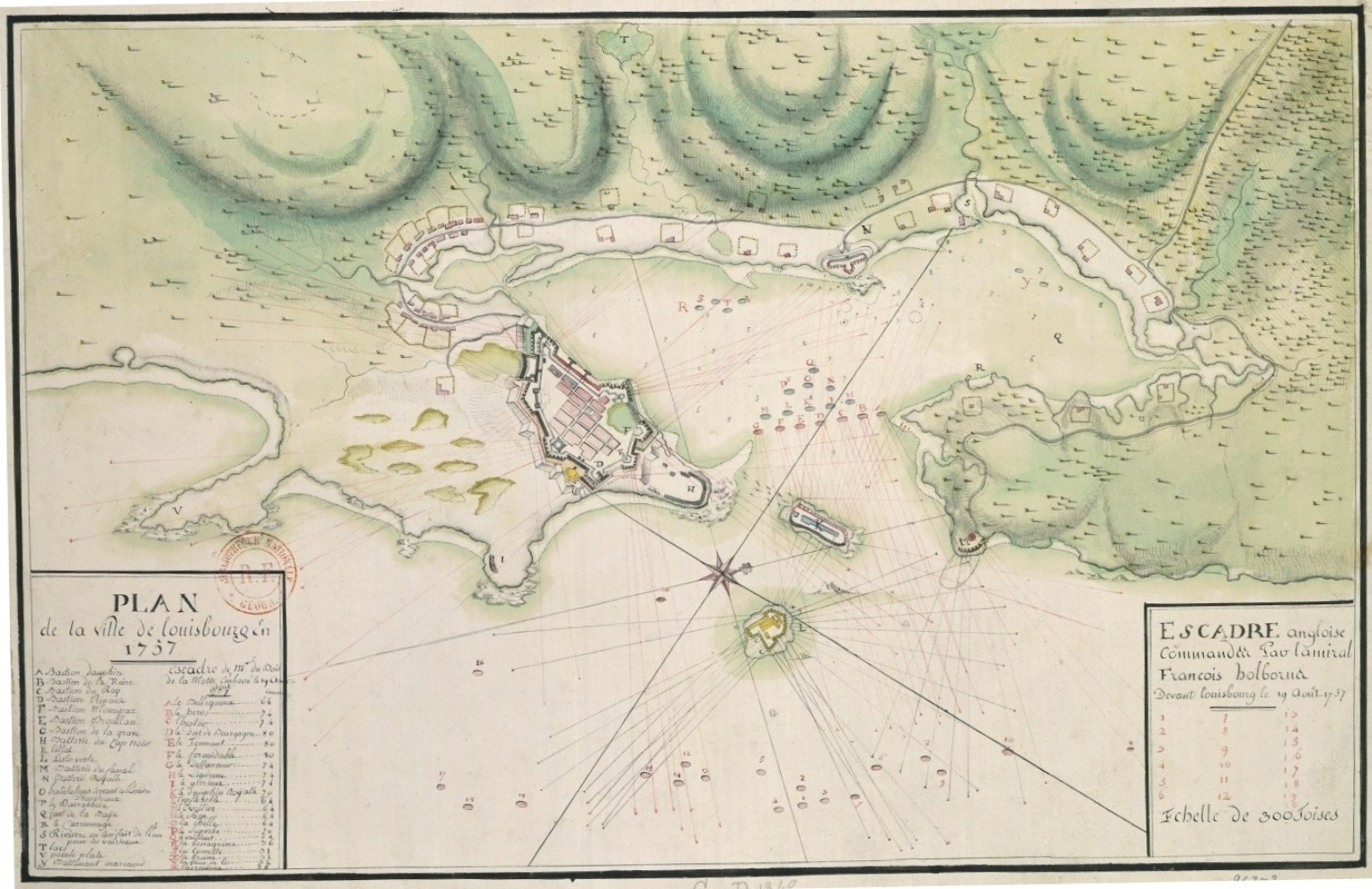 Map of the city and harbor of Louisburg in 1757 with French defense device on land and sea. List of ships of the squadron Dubois de La Motte. Opposite, at sea : vessels of Admiral Holburne, but without names. Seven Years War.